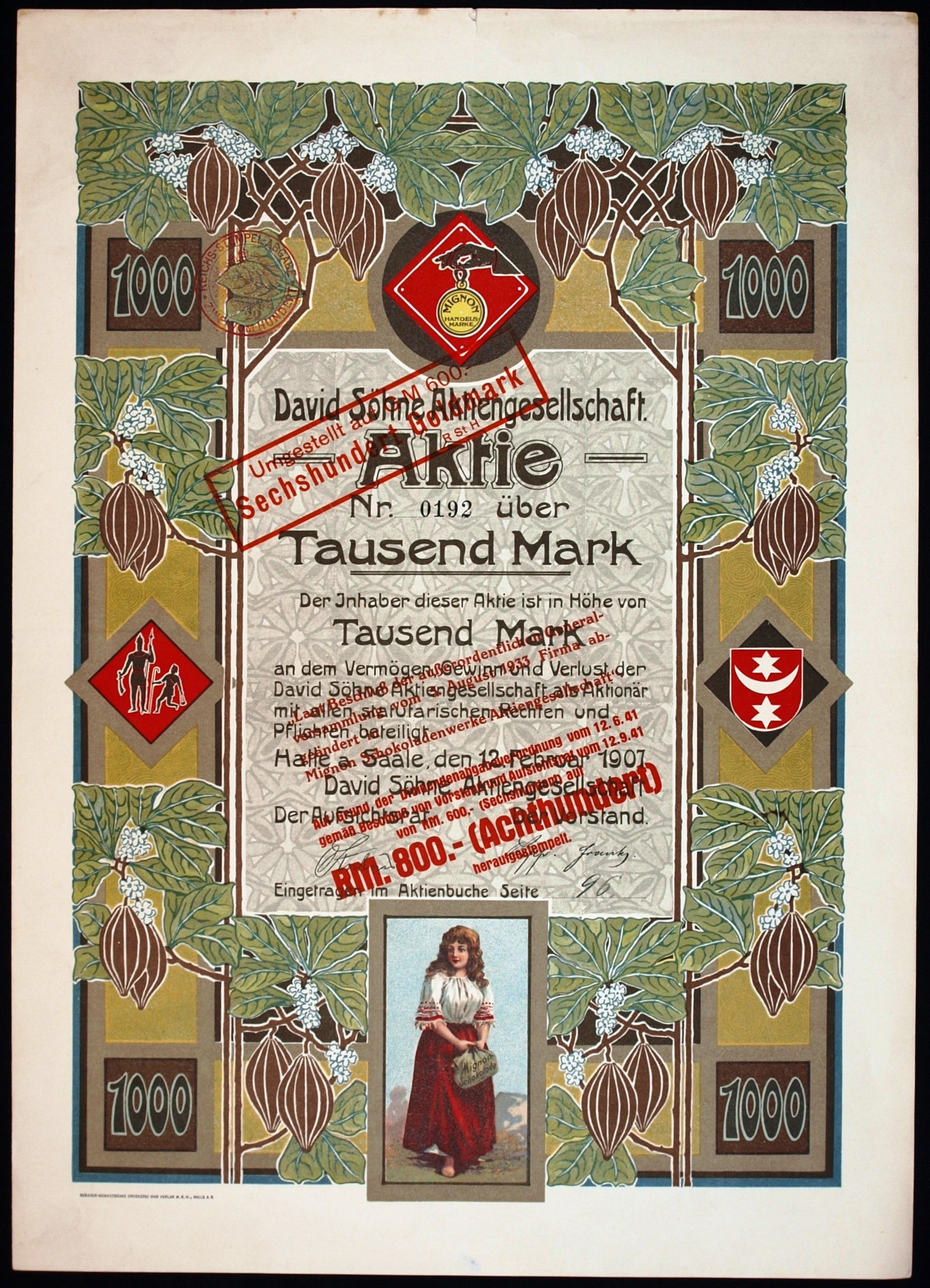 Share of the David Söhne AG, issued 12. February 1907